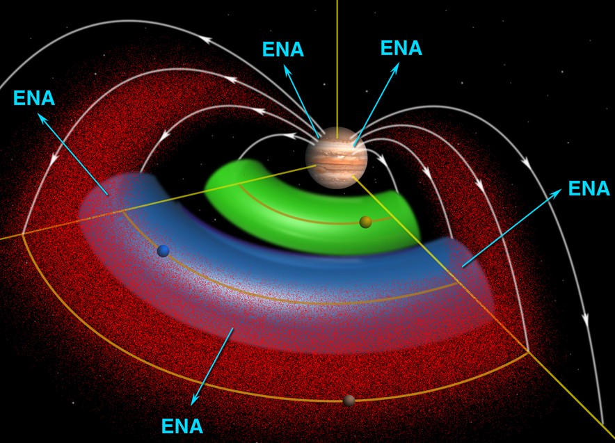 Jupiter Torus Diagram *original description: A cut-away schematic of Jupiter's space environment shows magnetically trapped radiation ions (in red), the neutral gas torus of the volcanic moon Io (green) and the newly discovered neutral gas torus of the moon Europa (blue). The white lines represent magnetic field lines. Energetic neutral atoms (ENA) are emitted from the Europa torus regions because of the interaction between the trapped ions and the neutral gases. The Magnetospheric Imaging Instrument on NASA's Cassini spacecraft imaged those energetic neutral atoms in early 2001 during Cassini's flyby of Jupiter. Energetic neutral atoms also come from Jupiter when radiation ions impinge onto Jupiter's upper atmosphere. *